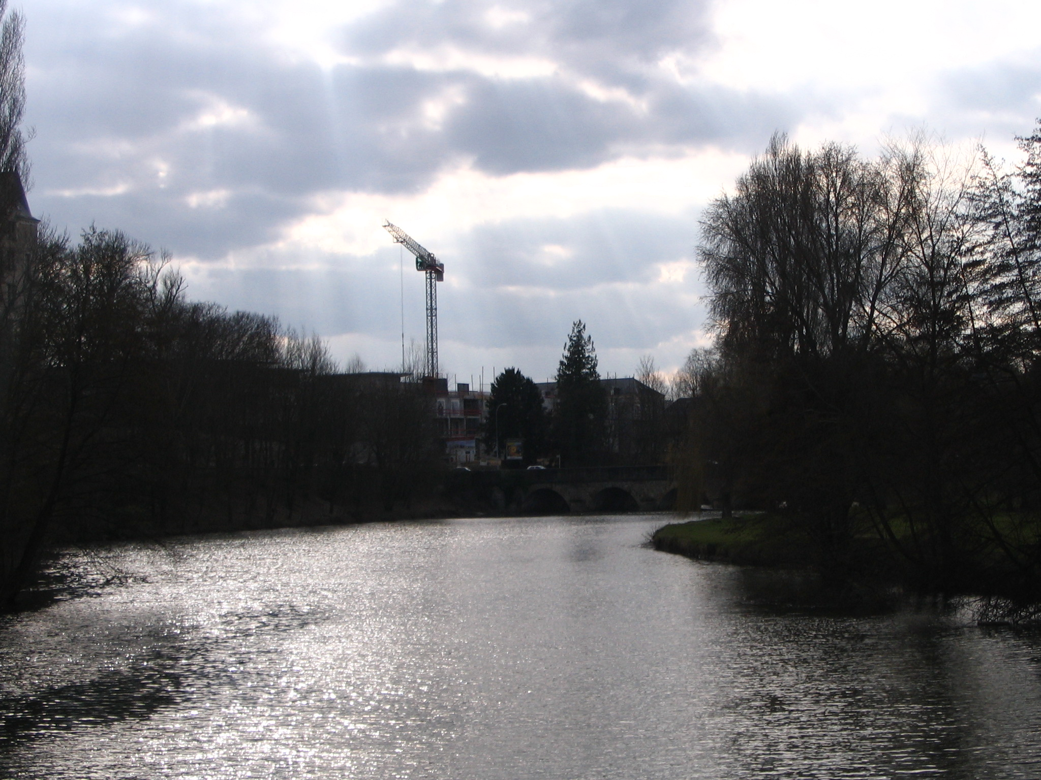 The "New Bridge", in Châteauroux, Indre, France.